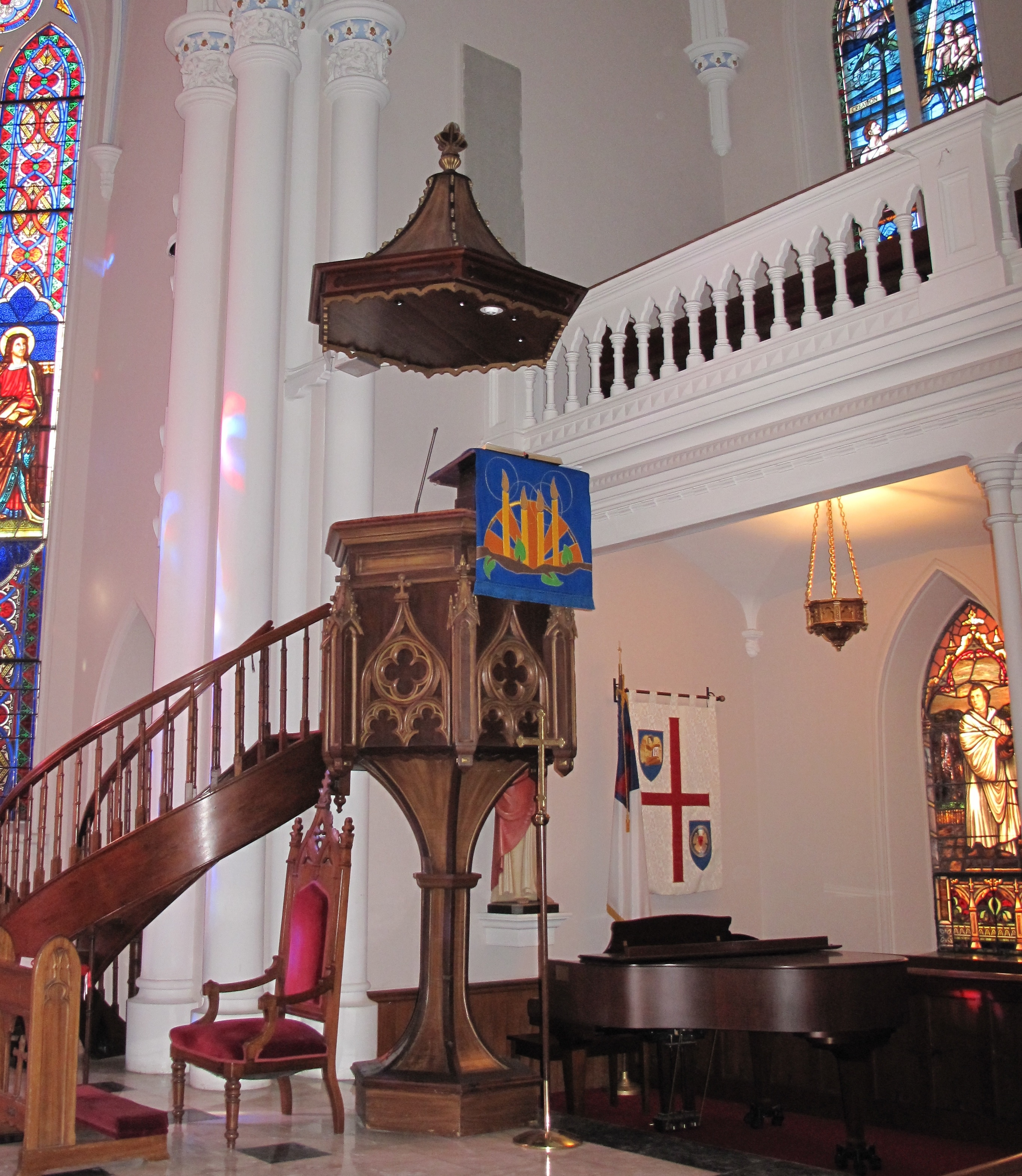 Gothic Revival wine glass pulpit and sounding board at St Matthew's German Evangelical Church (1872) in Charleston, SC. It survived the fire of 1965.